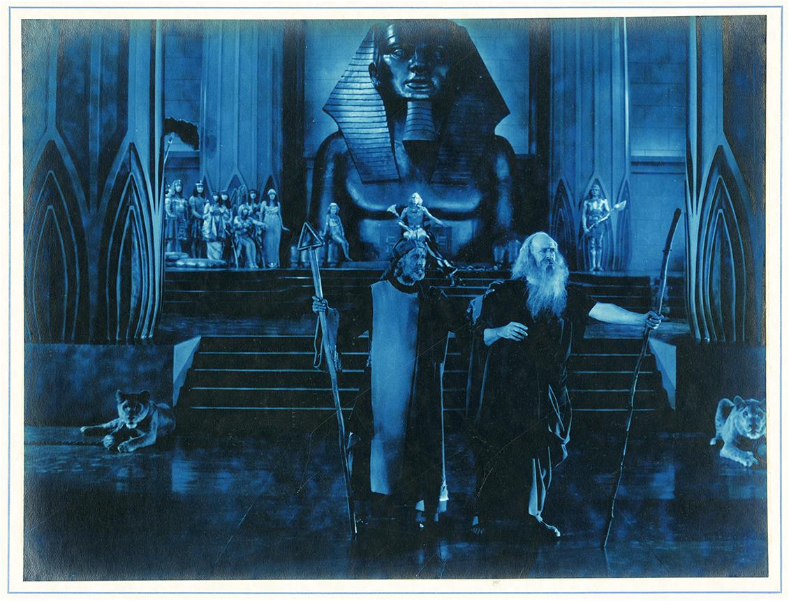 Title: Scene from Cecil B. DeMille's The Ten Commandments Repository: California Historical Society Digital object ID: PC-RM-Curtis_053 Call Number: PC-RM-Curtis Collection: Photographs of the filming of Cecil B. DeMille's The Ten Commandments Photographer: Curtis, Edward S. Date: 1923 Physical description: Photographic print on printed mounts: silver gelatin, blue-tinted; 38 x 50 cm. General notes: Mounts imprinted: The Edward S. Curtis Studio 668 South Rampart, Los Angeles. Contains images of actors playing scenes in, and exterior and interior sets from, Cecil B. DeMille's The Ten Commandments. Most photos show Theodore Roberts as Moses, and several show Charles de Rochefort (Charles de Roche) as Ramses. Includes group scenes in the dunes, near or in the ocean, and on interior sets. Filmed at Guadalupe-Nipomo Dunes in Santa Barbara County, California. Preferred citation: Scene from Cecil B. DeMille's The Ten Commandments, Photographs of the filming of Cecil B. DeMille's The Ten Commandments, PC-RM-Curtis, courtesy, California Historical Society, PC-RM-Curtis_053.